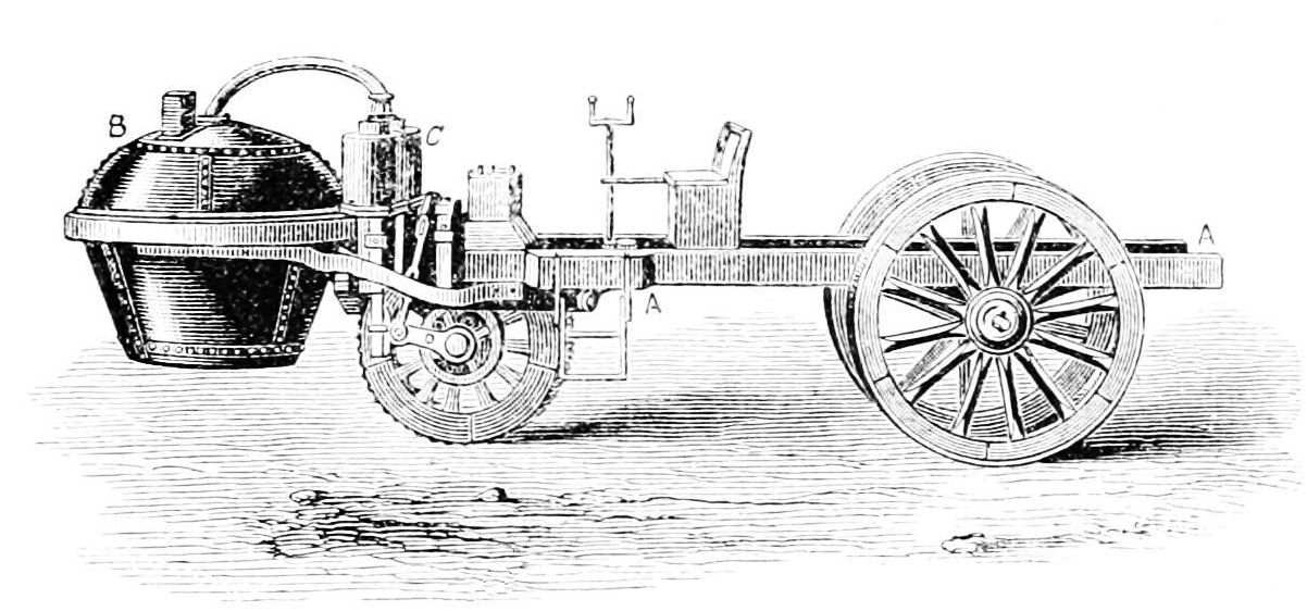 Cugnot steam engine